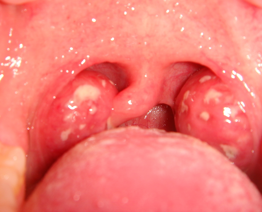 Tonsilitis (after acute tonsilitis diagnosis)